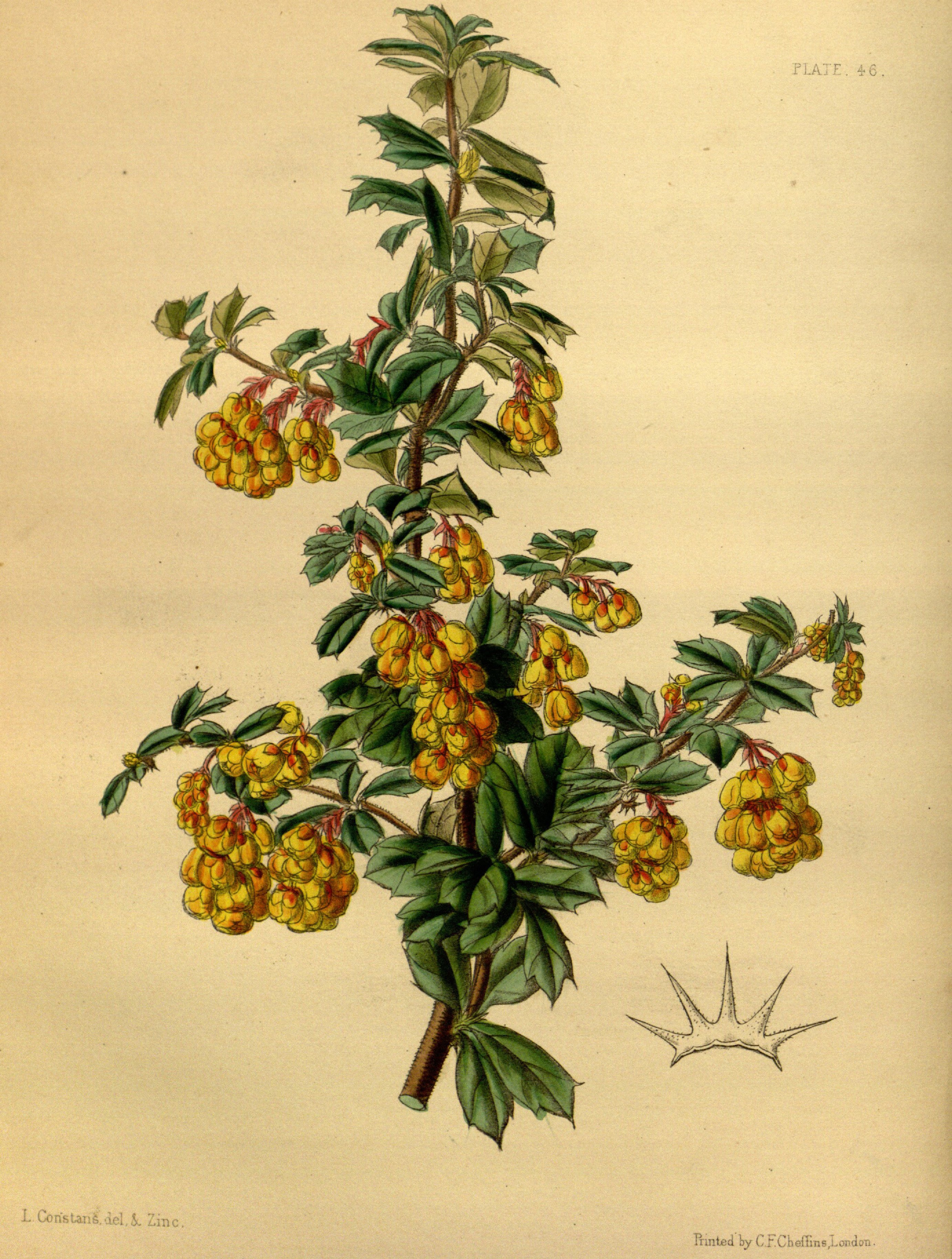 Berberis darwinii Hook.